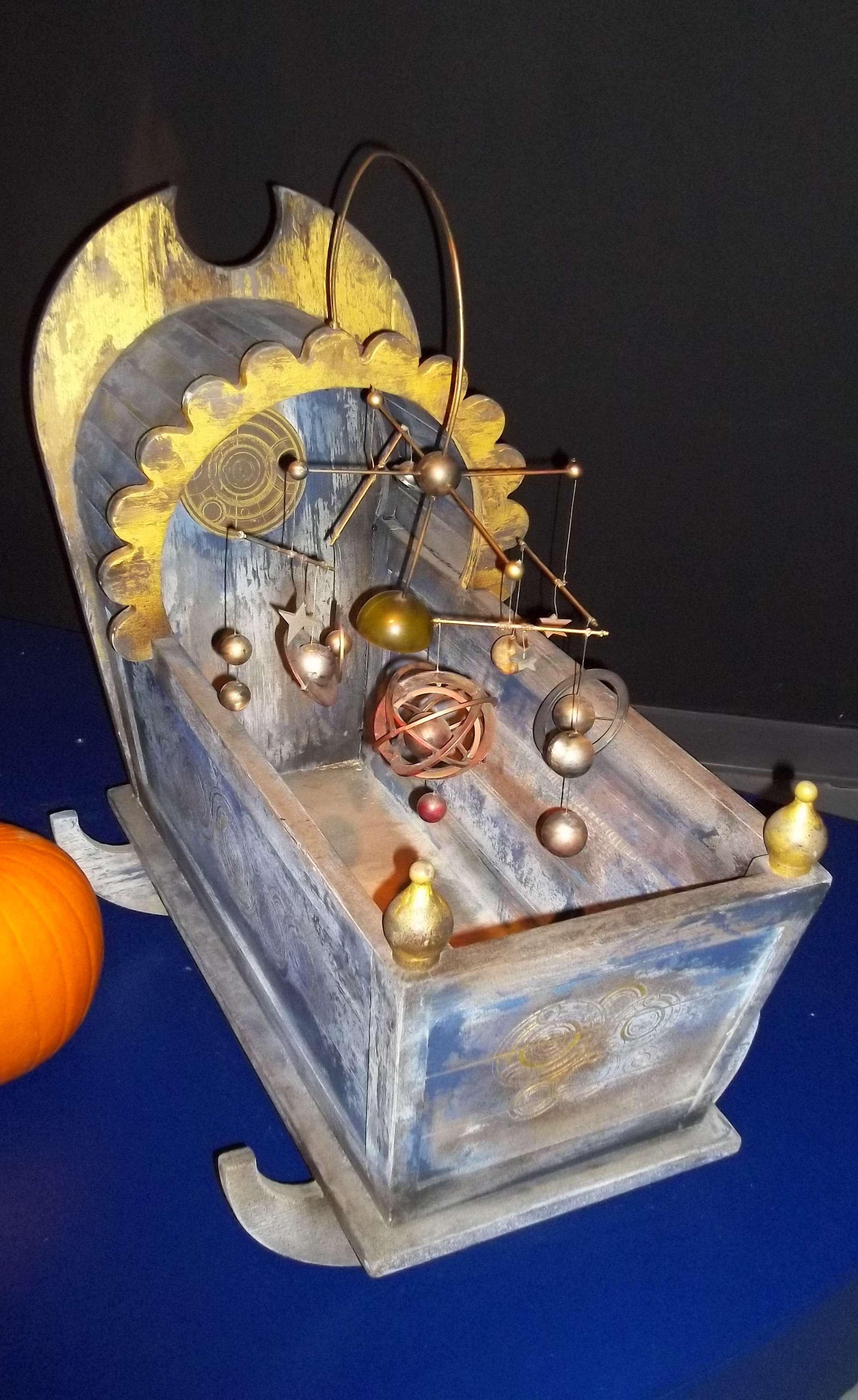 Doctor's Cot Doctor Who Experience